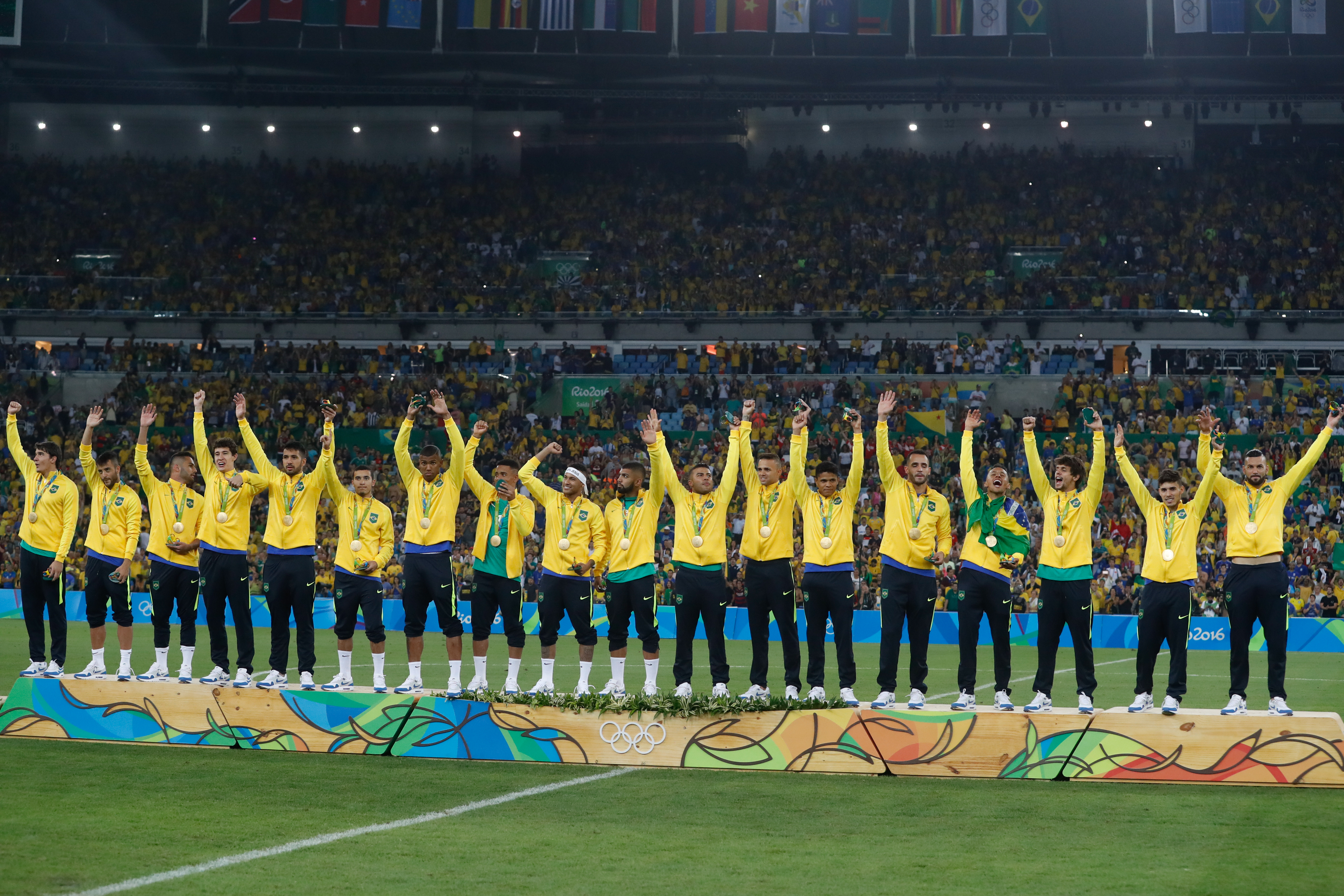 Rio de Janeiro - Brasil vence Alemanha e conquista primeiro ouro olímpico do futebol (Fernando Frazão/Agência Brasil)